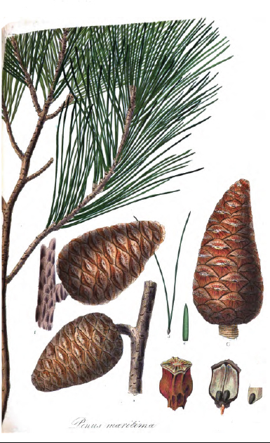 Pinus halepensis (syn. P. maritima). Botanical illustration from: Description of the Genus Pinus, with directions relative to the cultivation, remarks on the uses of the several species and descriptions of many other new species of the Family of Coniferae illustrated with figures by Aylmer Bourke Lambert, Esq. London: Messrs. Weddell, MDCCCXXXII